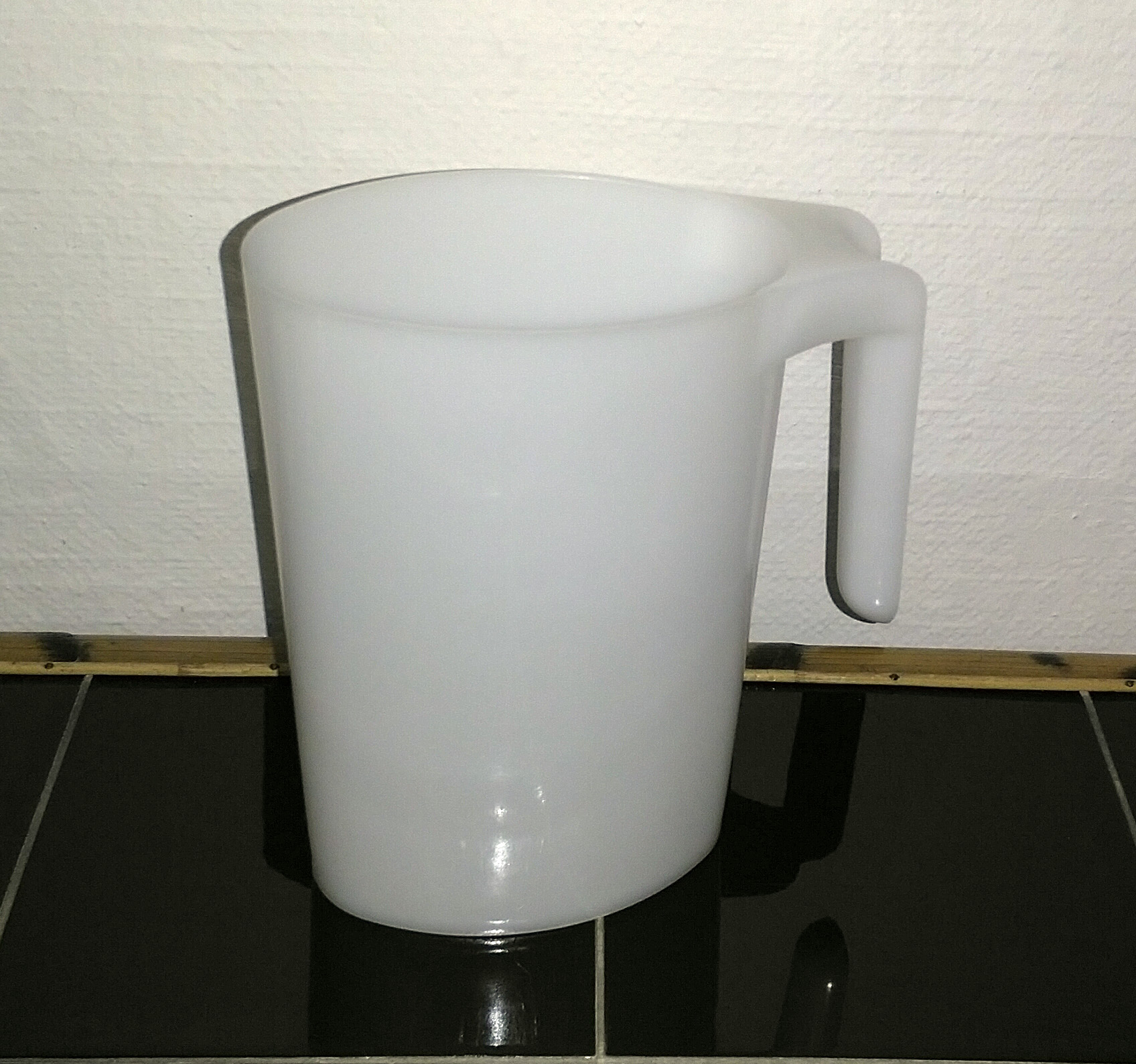 A pitcher for milk bags from Swiss supermarket chain Migros, late 1990's to very early 2000's. Made in Switzerland.